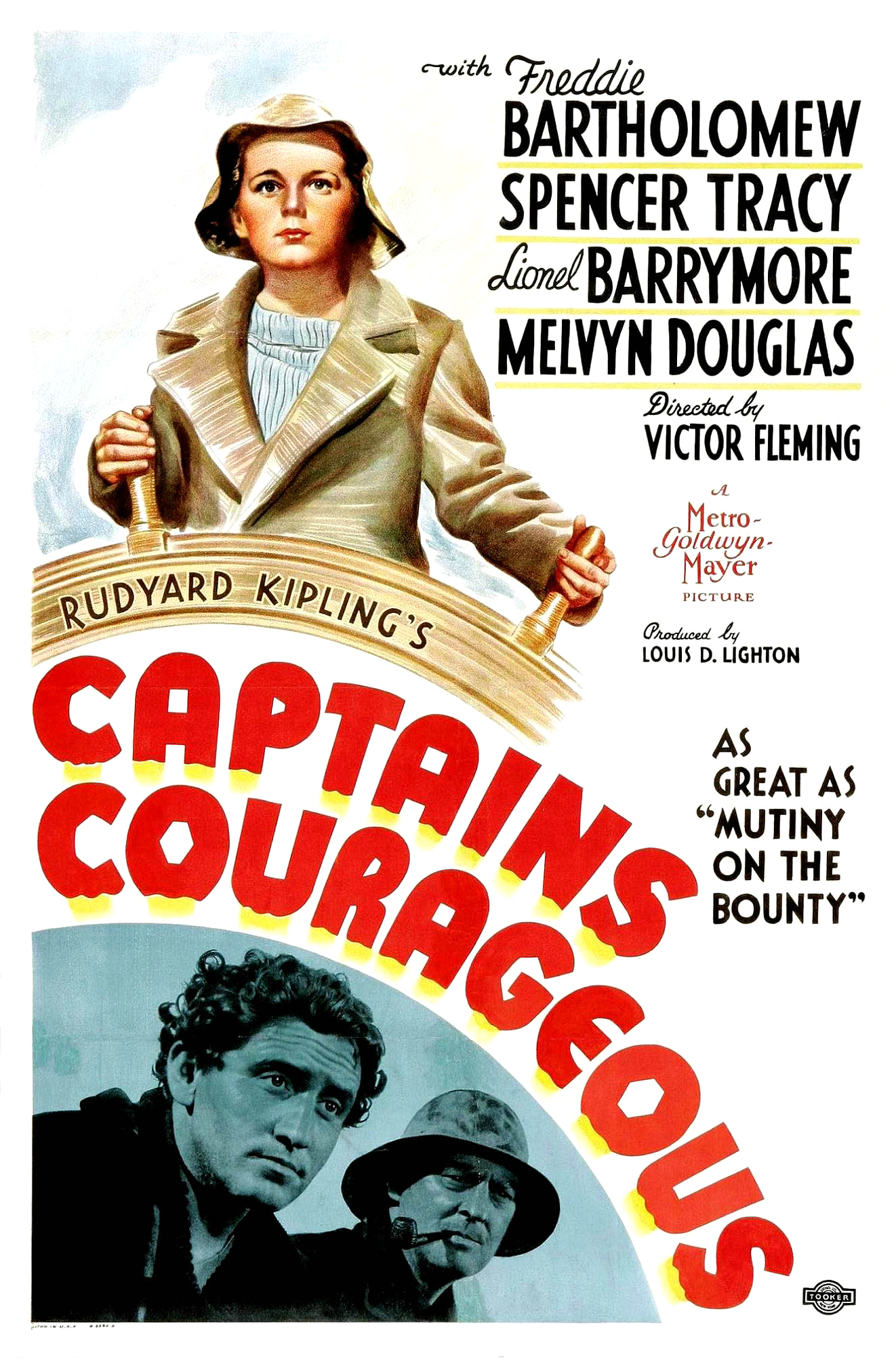 Poster for the 1937 film Captains Courageous.